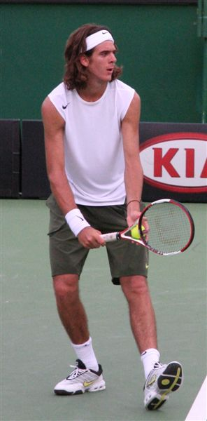 Juan Martín del Potro at the 2007 Australian Open